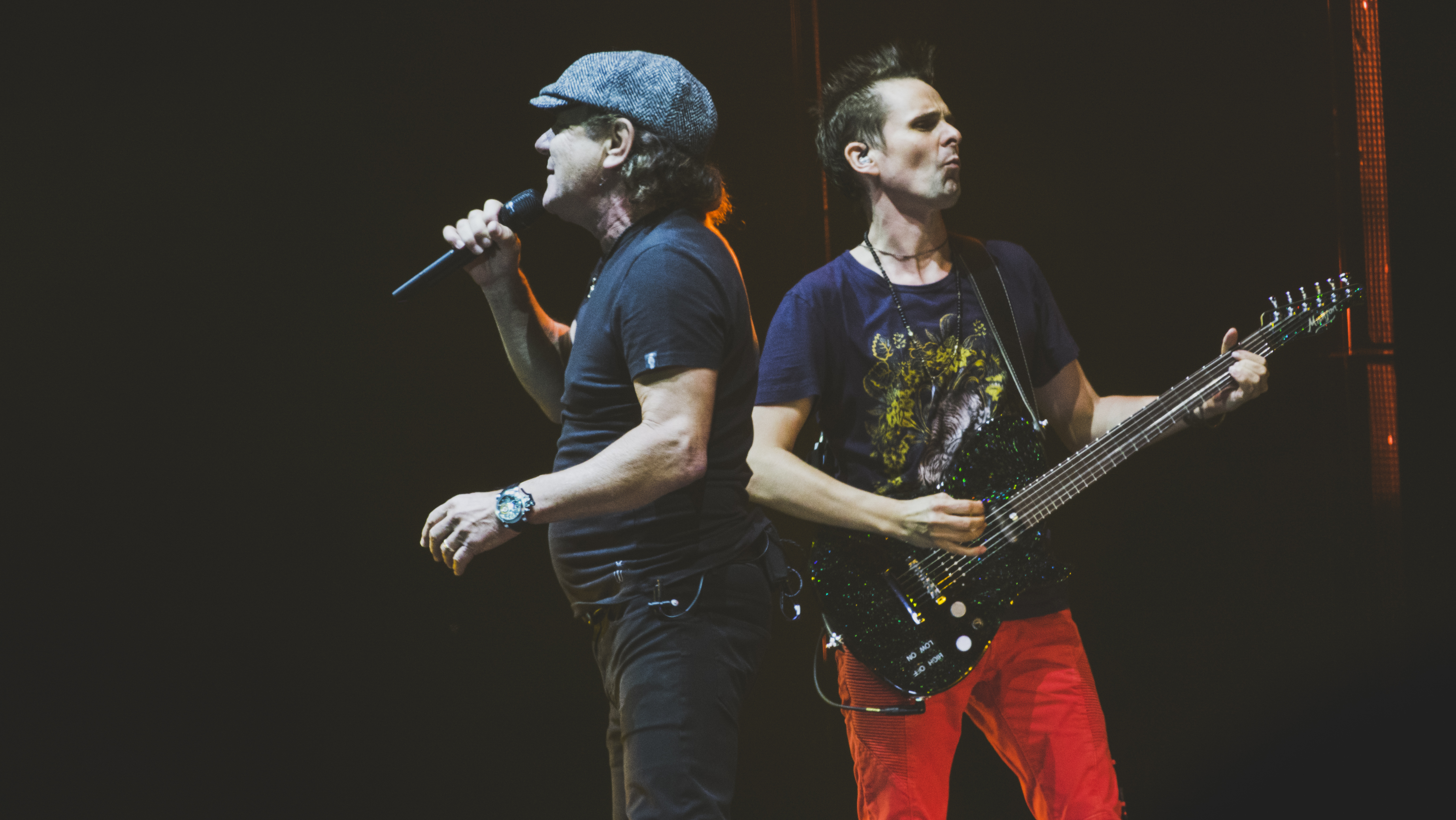 Performance of the English rock band Muse at Reading Festival 2017.